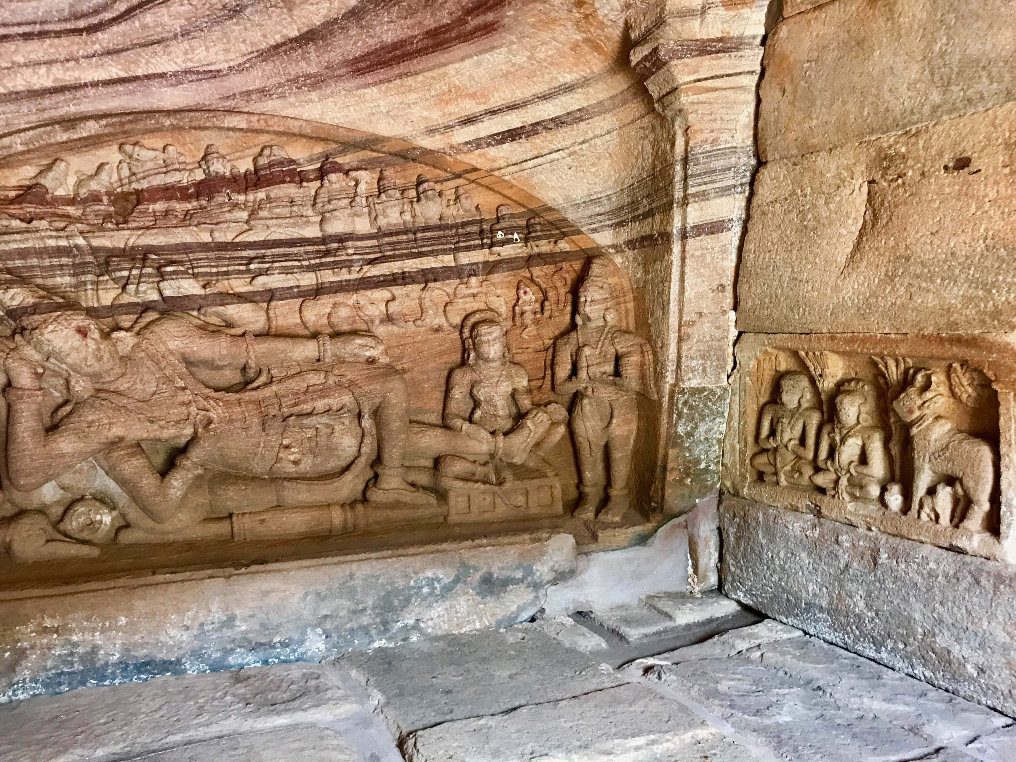 Badami, also mentioned as Vatapi, Vatapipura and Vatapinagari in historical texts, was an important ancient and early medieval era capital. It is the site of the earliest Hindu cave temples whose date can be established with certainty. The earliest cave temple (Cave 3, Vaishnavism) is from the 6th century, with Cave 1 (Shaivism) built shortly thereafter. Cave 2 (Vaishnavism) is dated to the 7th century. Cave 4 features theology and ideas of Jainism, built after the first three. In late medieval era, Tipu Sultan and his Muslim army garrisoned in Badami. The Badami region is home to numerous medieval era Hindu and Jain temples and monuments. It also has artwork in many unnamed or unnumbered caves nearby, around the man made ancient lake. Some of these seem like Buddhist or Hindu or Jain monuments but the syncretic nature of the artwork make them difficult to categorize as belonging to Buddhism or Hinduism.